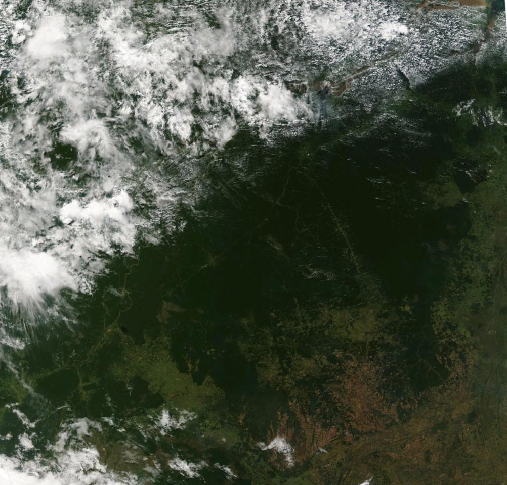 Amazon rainforest. Nasa MODIS satellite picture.